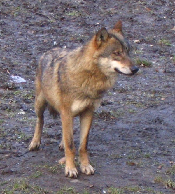 canis lupus lupus Photographed by hok released under